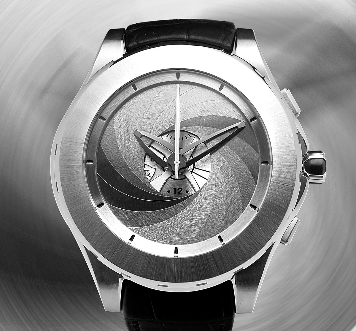 Close up look at the Valbray Oculus shutter-type dial